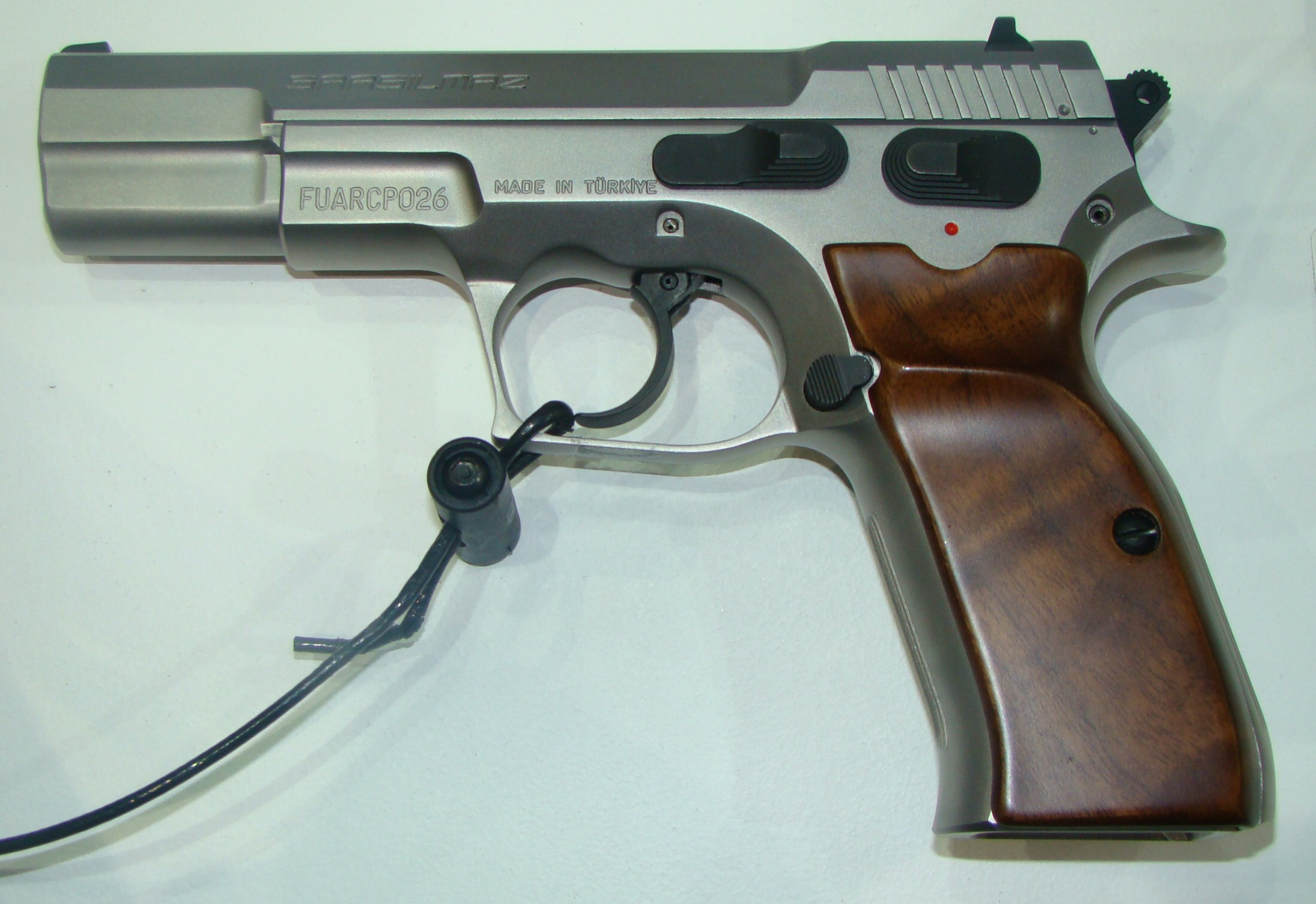 Sarsilmas Kilinc 2000 pistol